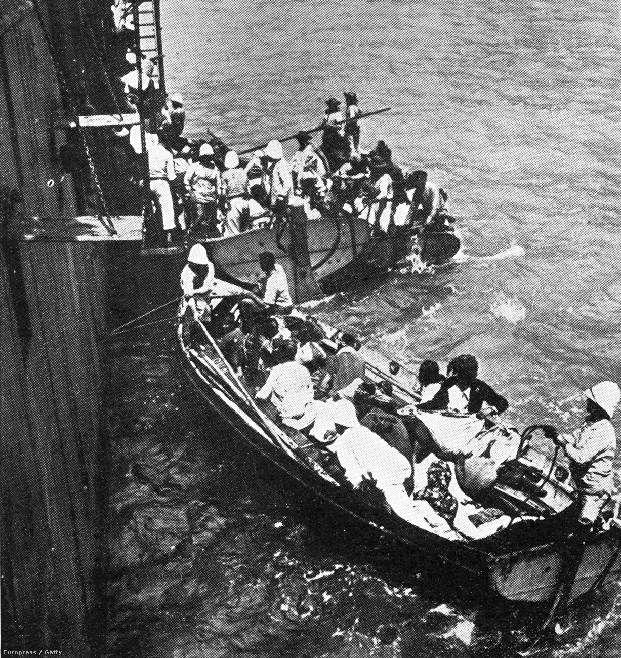 French warship picking up a boat full of Armenian refugees fleeing from the massacre of their people by Turkish forces during WWI